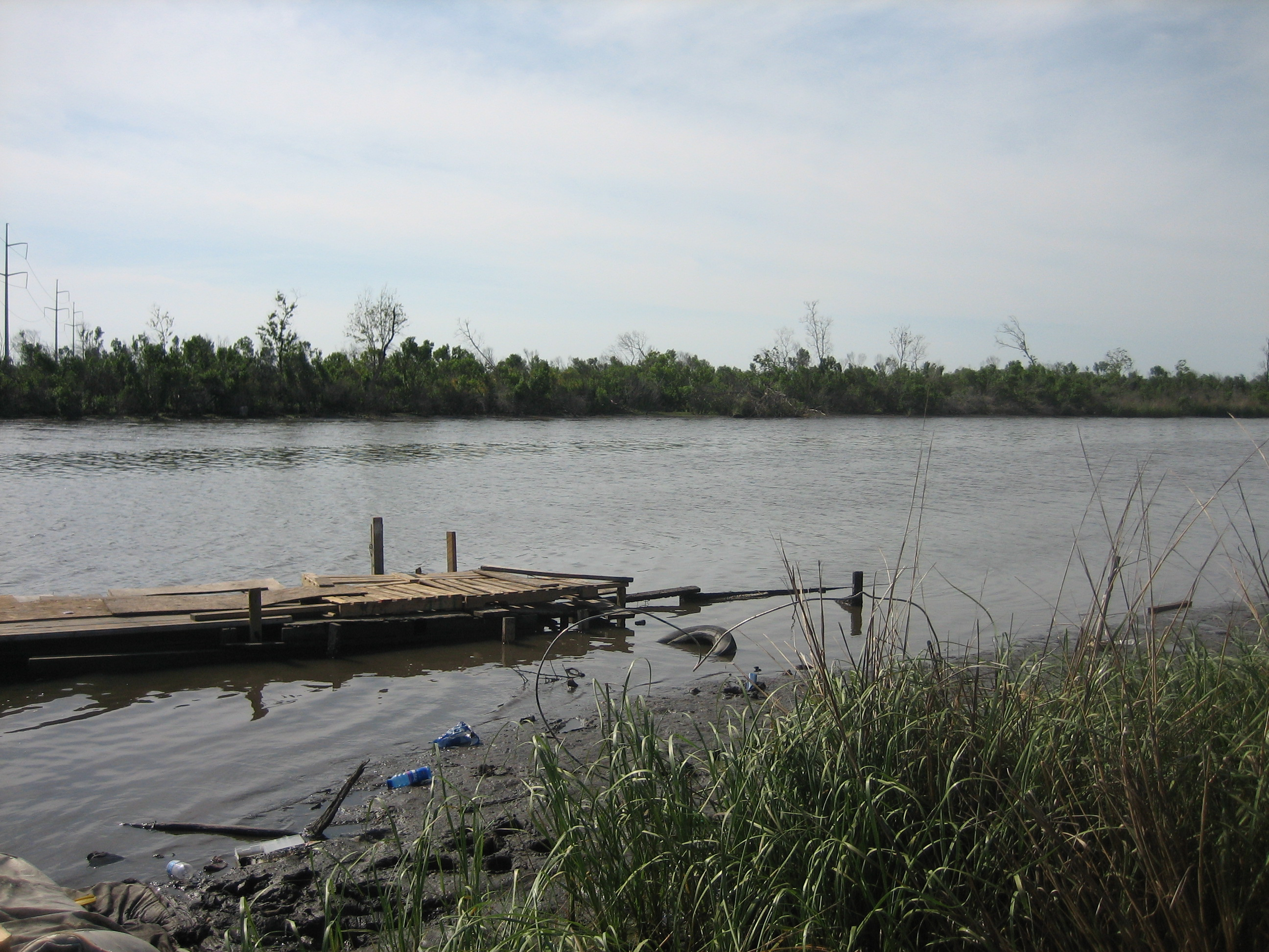 Louisiana: Duncan Canal from Kenner side. Photo by Infrogmation